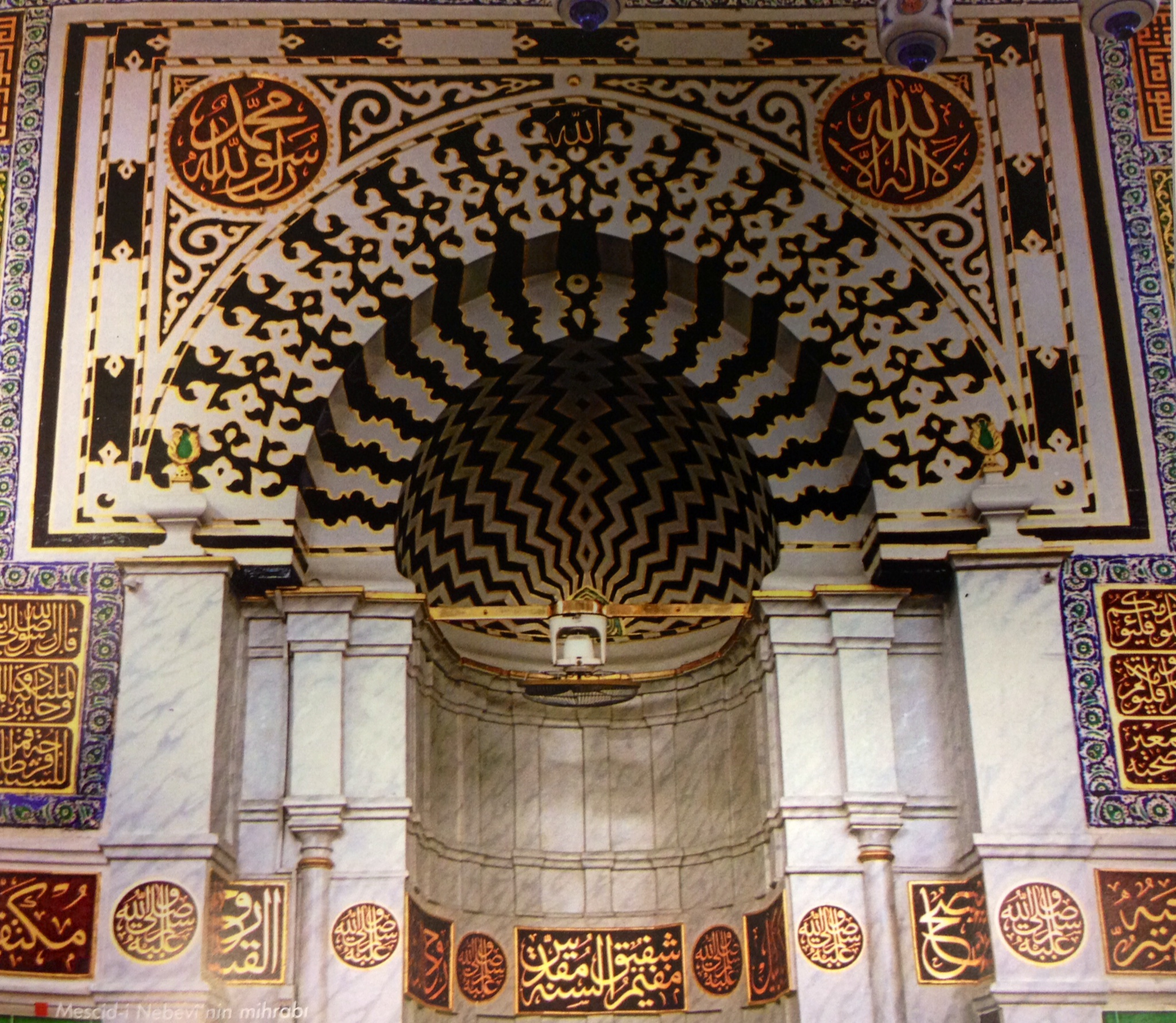 Mihrab in Al-Masjid al-Nabawi, Madina